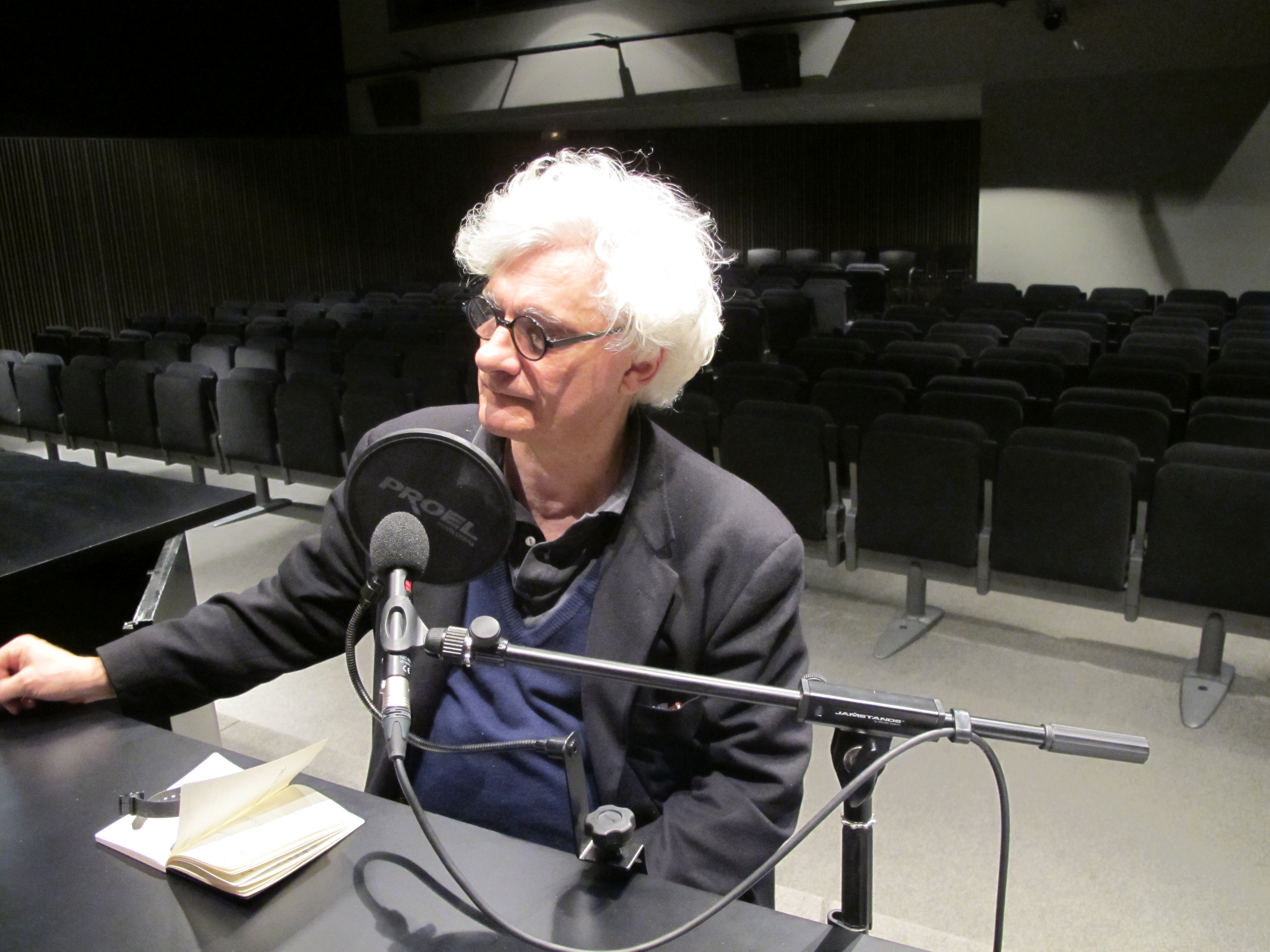 Bifo va ser coartífex d'algunes de les experiències creatives —entre activisme social i comunicació— històricament més influents del moviment del 77 a Itàlia, com la revista A/traverso i Radio Alice. Actualment, dissemina la seva escriptura en suports no acadèmics: textos de conjuntura, intervencions en blogs i llistes de correu, entre d'altres. Foto: MACBA, 2013